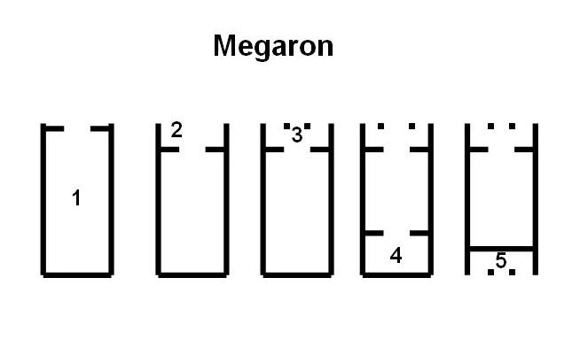 Megaron, cella 1 - naos, cella 2 - ants 3 - pronaos 4 - adyton 5 - opisodomos